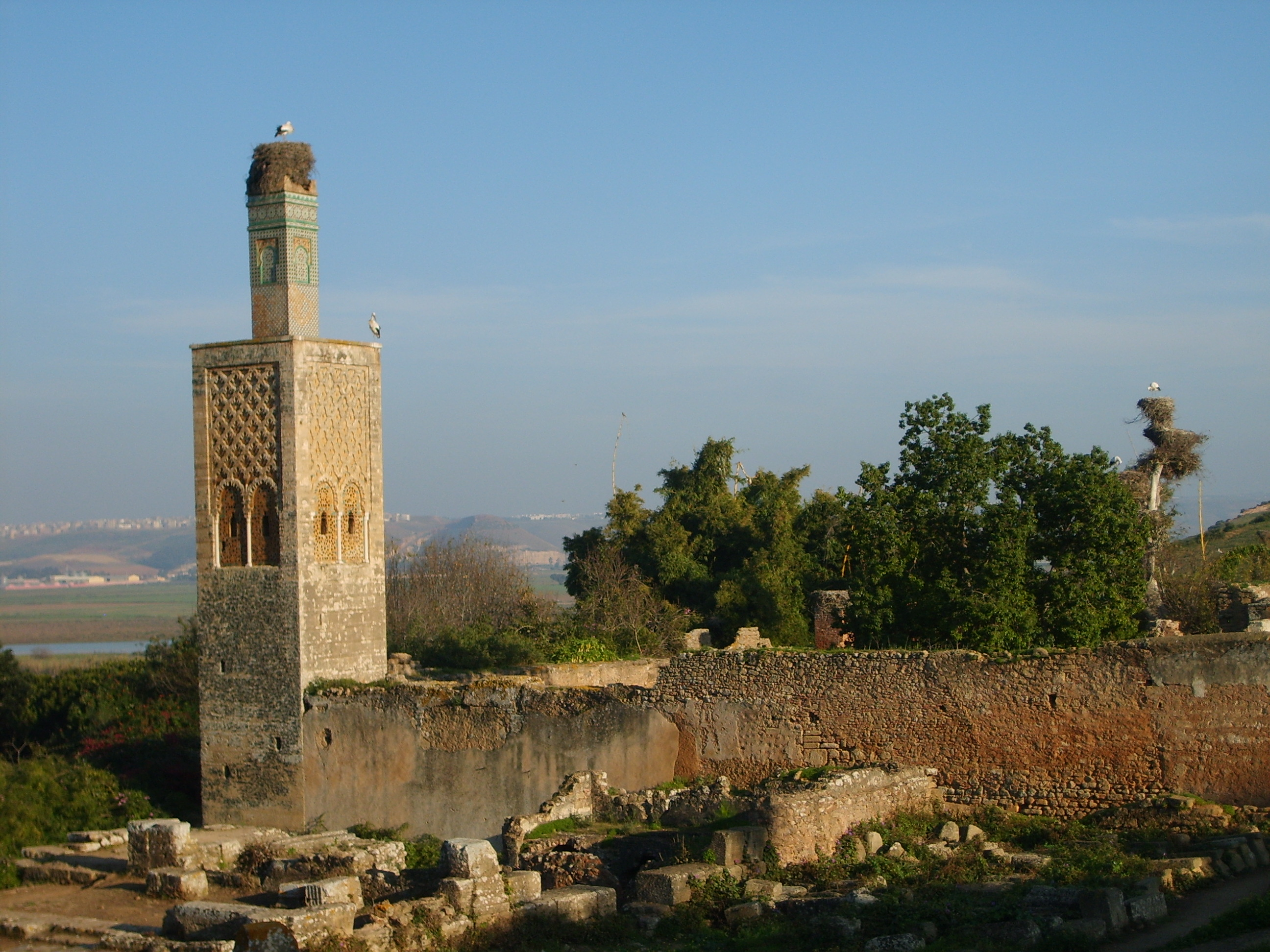 interior of Chellah ruins in Rabat, Morocco